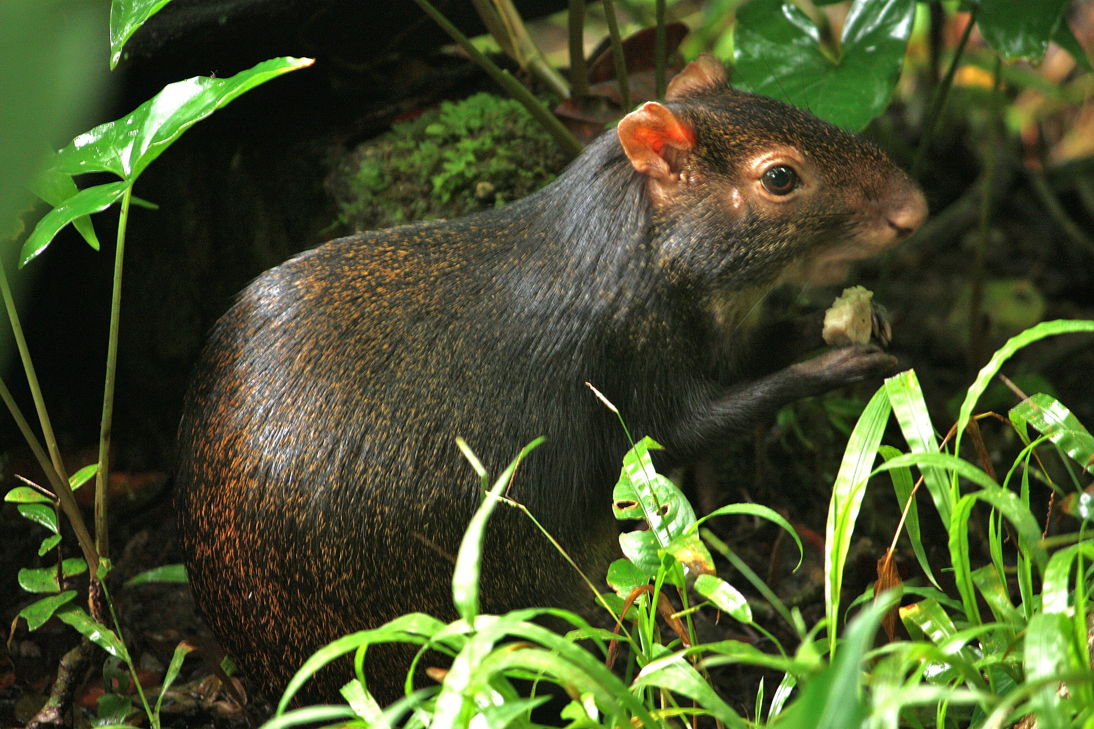 Brazilian Agouti (Dasyprocta leporina) feeding; on border of Mornes Trois Pitons National Park, Dominica.